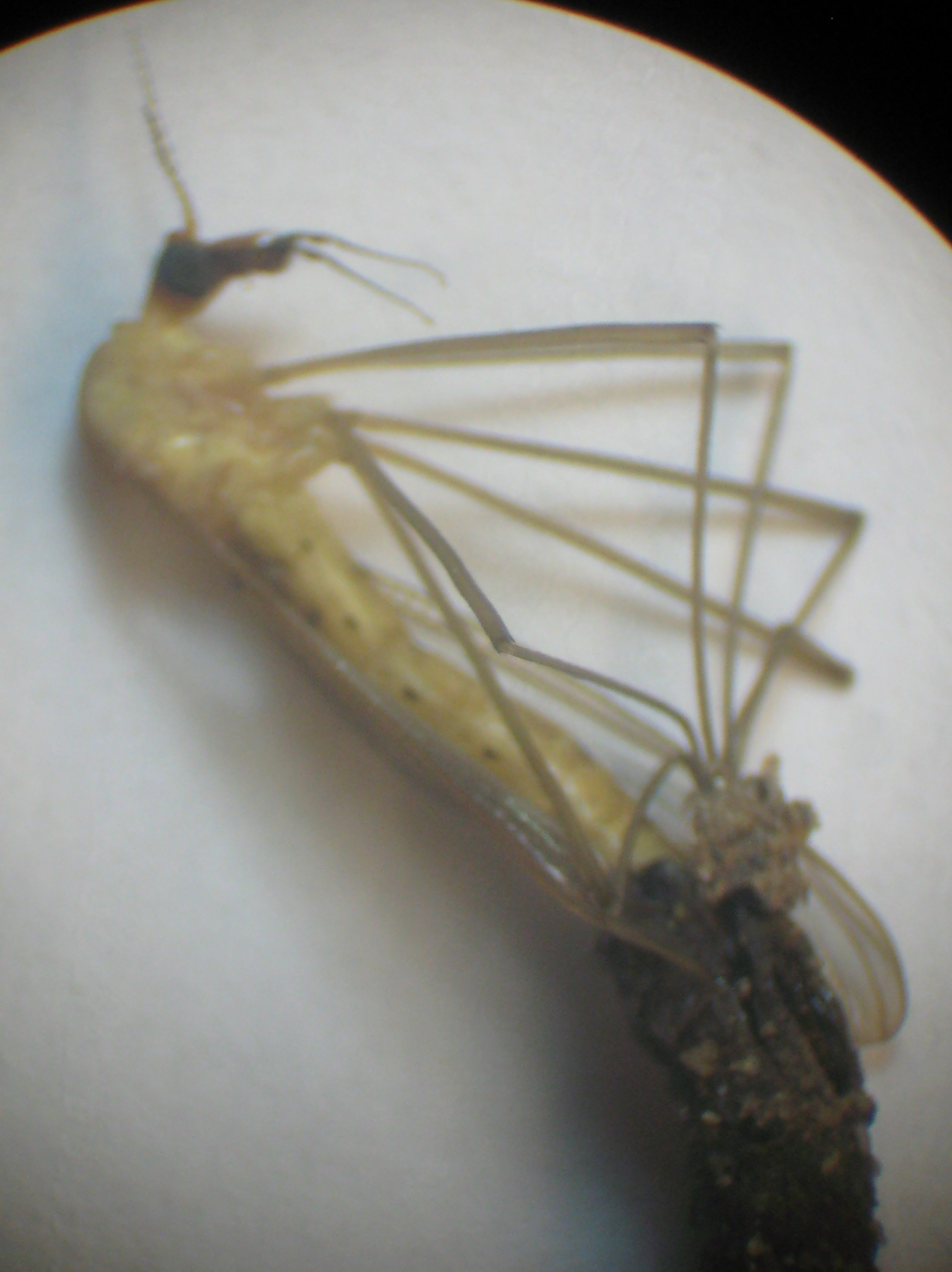 Crane Fly Molting 3